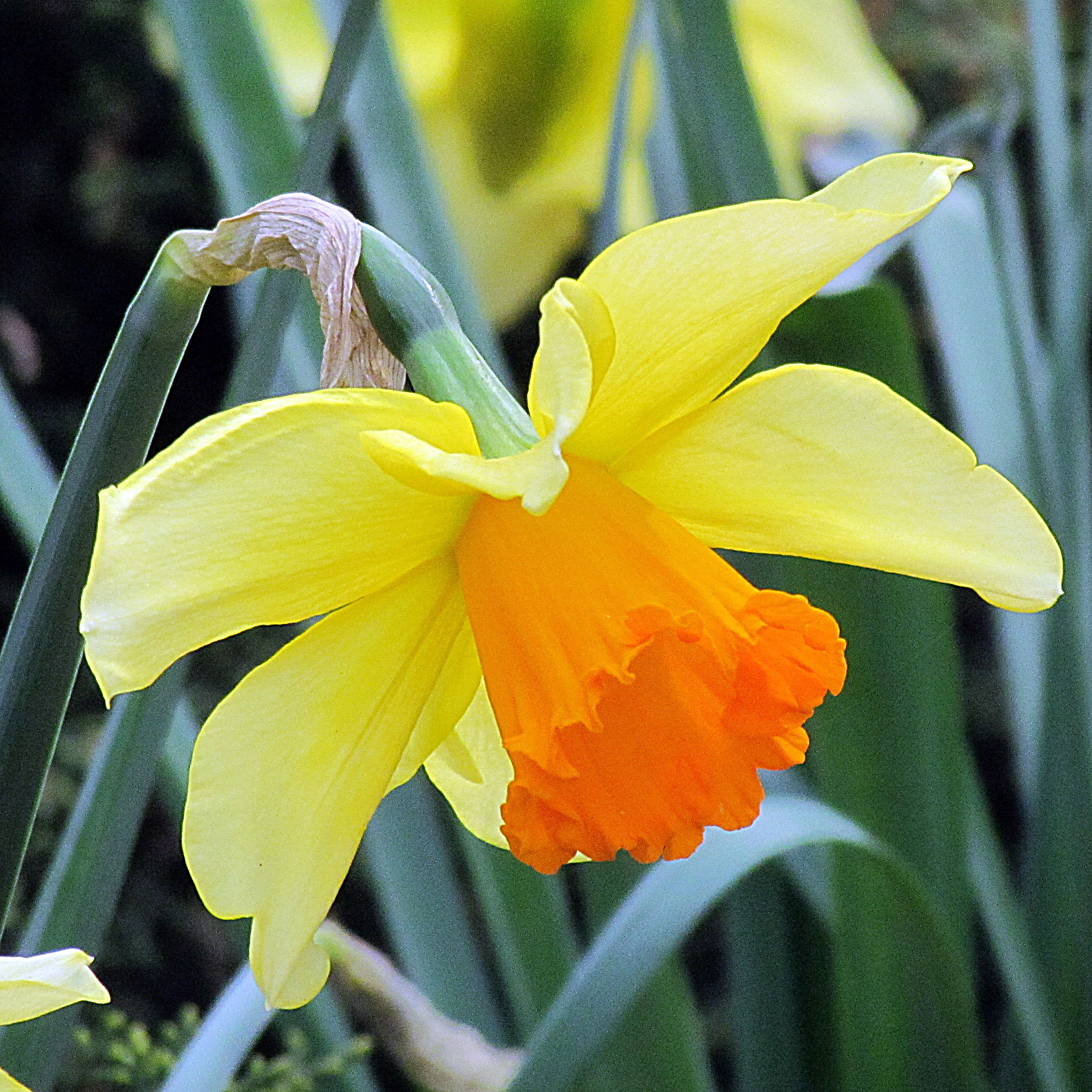 Narcissus pseudonarcissus flower